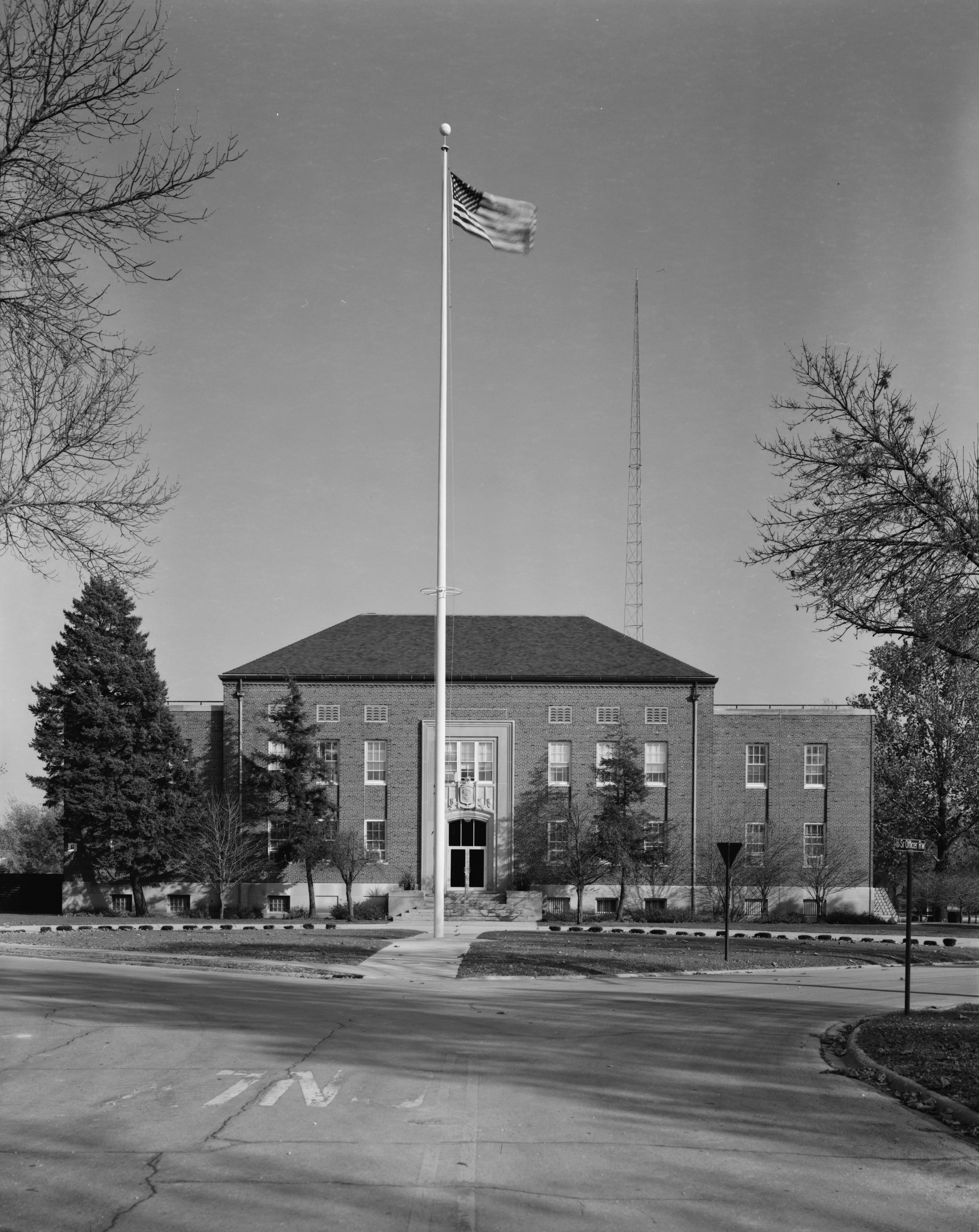 Chanute Air Force Base, Headquarters & Administrative Building, Senior Officer Row at Galaxy Street, Rantoul vicinity, Champaign County, IL. (1. Distant view of west front with flagpole (structure #92). HABS ILL,10-RAN.V,1A-1)